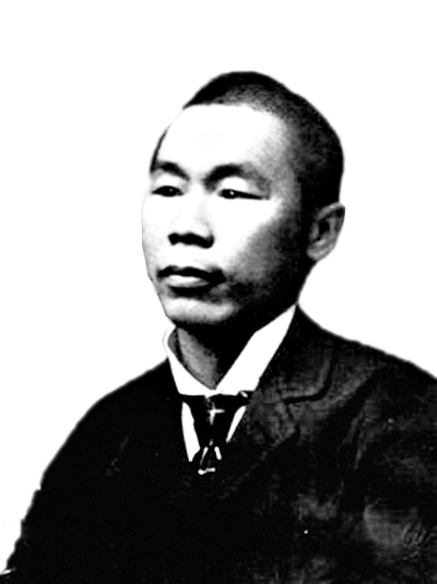 Dean Lung (1857-?)